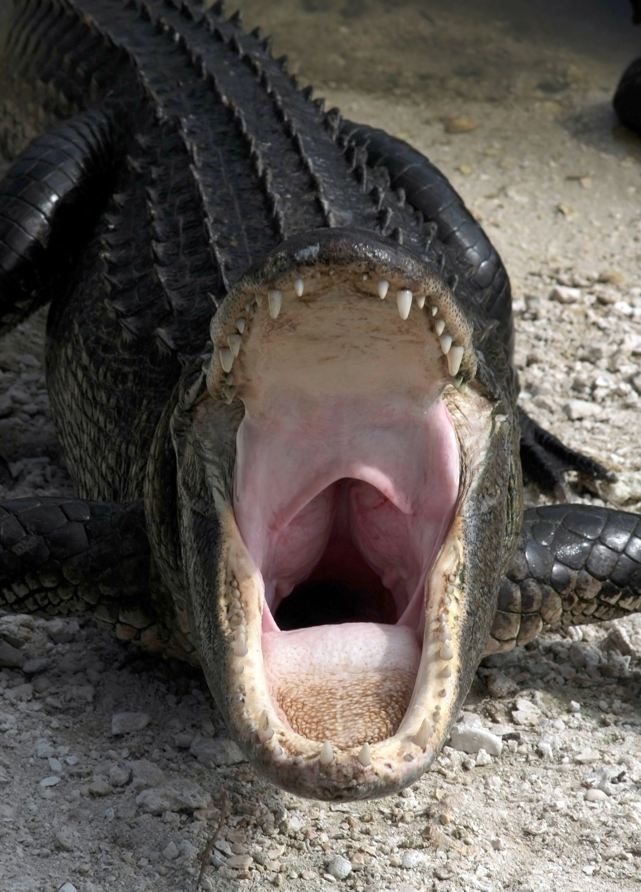 A yawning American alligator (Alligator mississippiensis), Collier county, Florida.